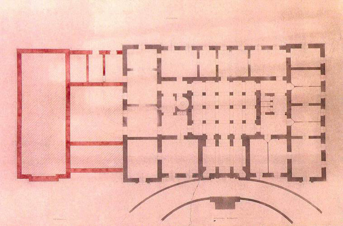 Ernst Ziller's floorplan for the crown prince's palace in Athens.